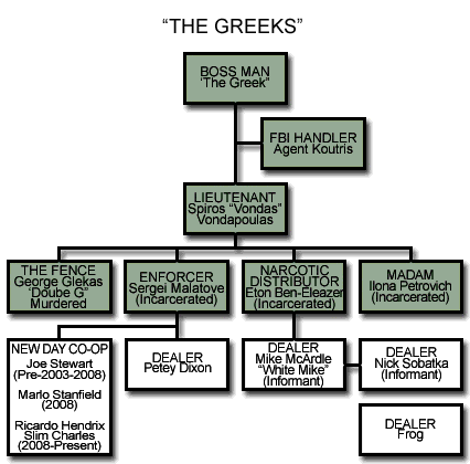 Organizational chart of the fictional organization "The Greeks" from the TV series The Wire.